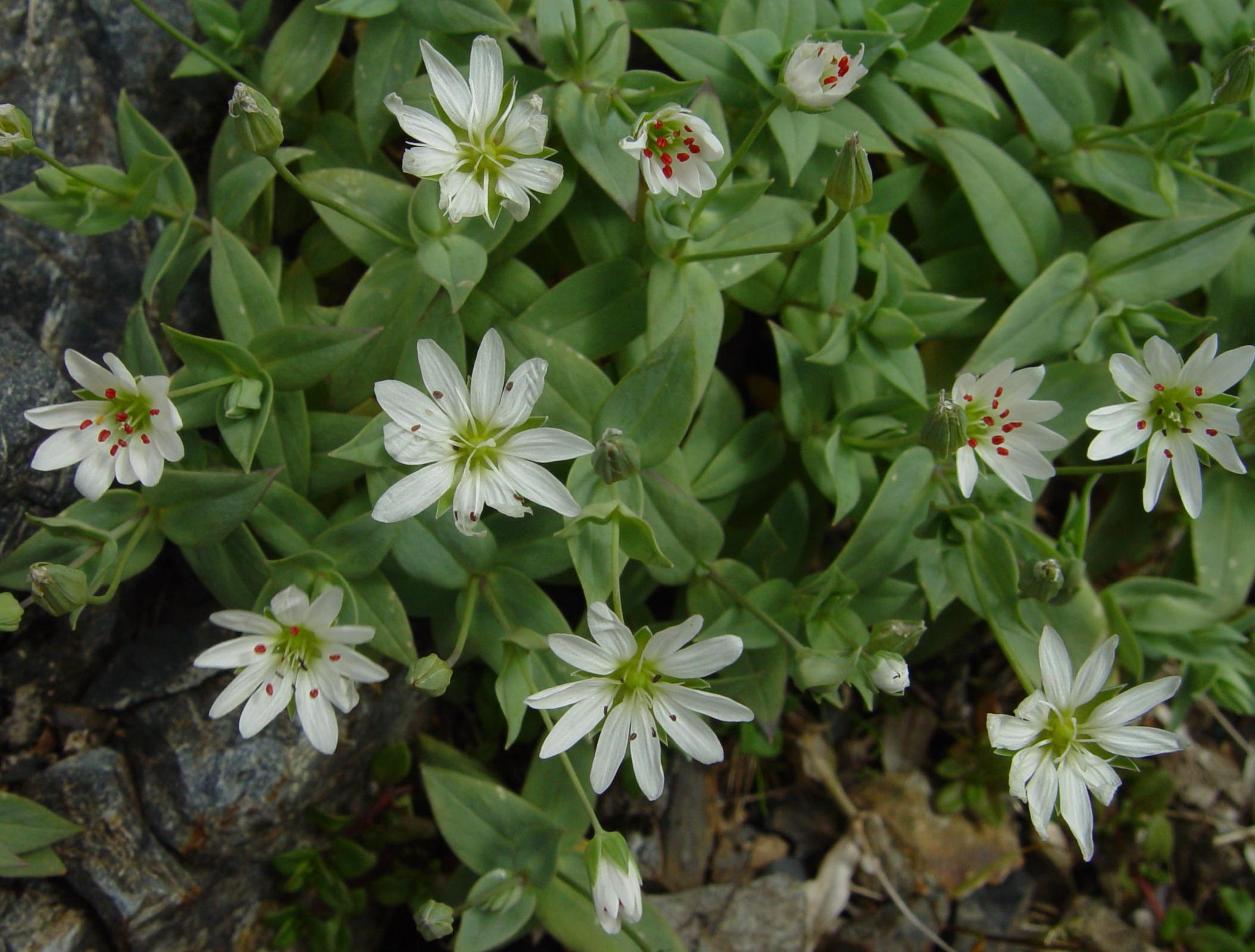 Stellaria ruscifolia Willd. ex Schltdl. in Mount Hijiri, Japan.